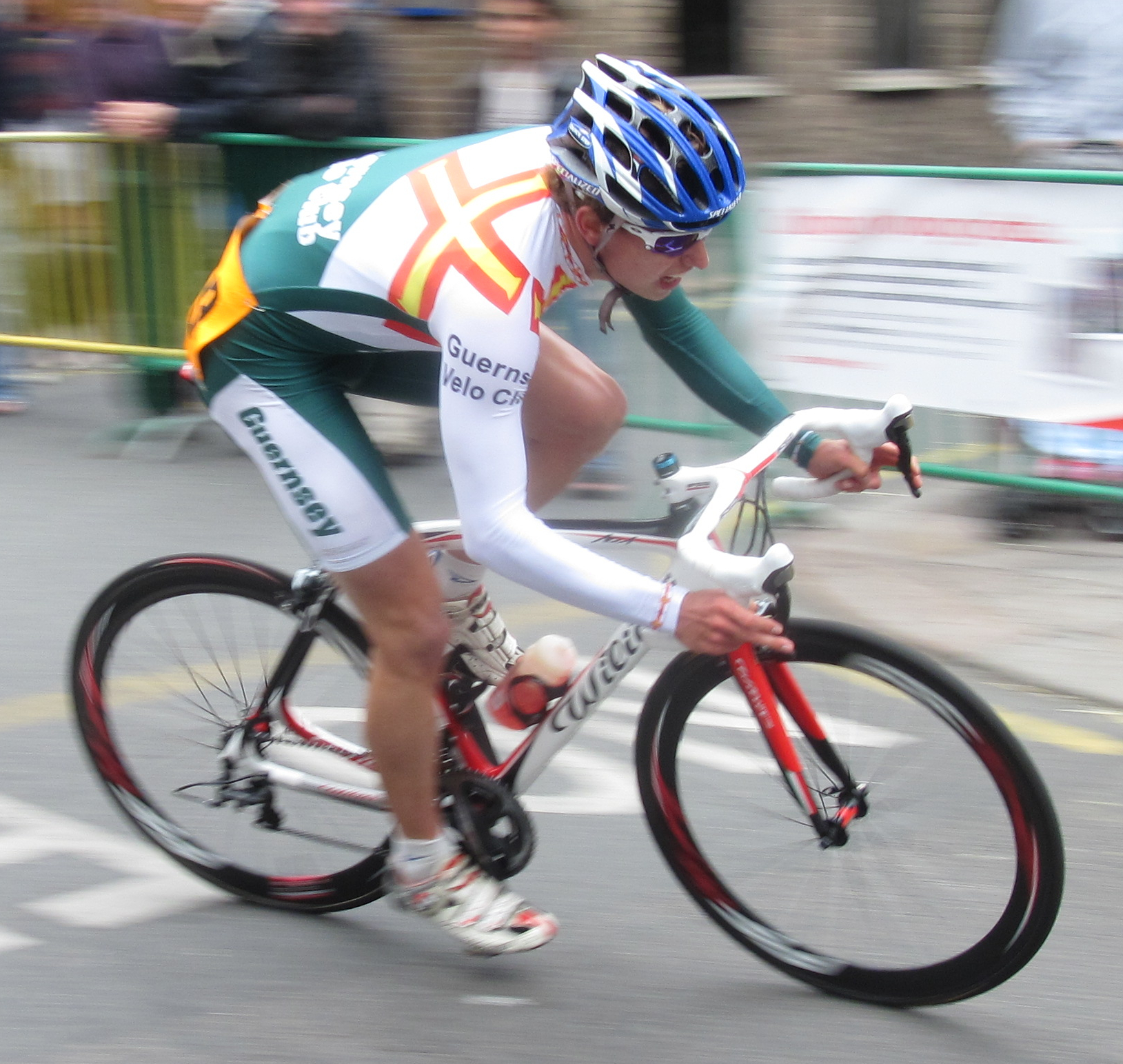 Jersey Town Criterium bicycle races, Saint Helier, Jersey